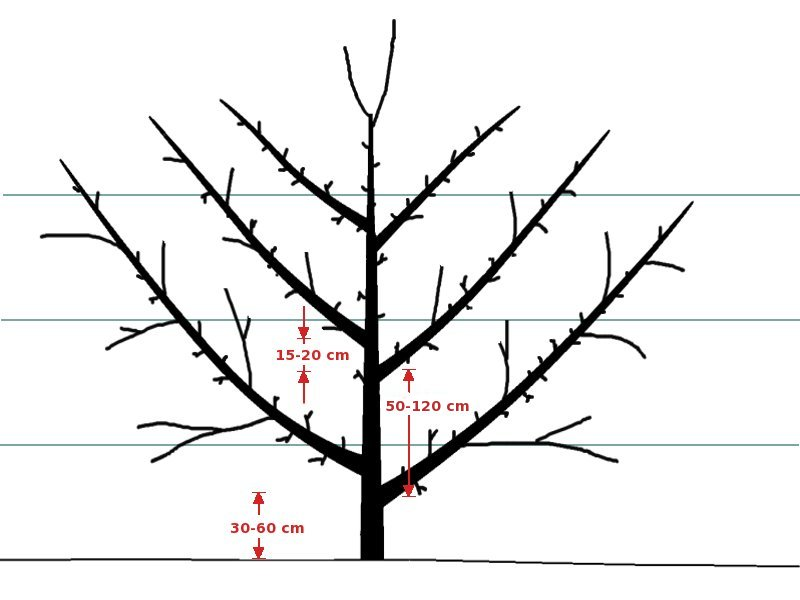 Regular espalier with upward-slanting branches often used with espaliered apple and pear trees.